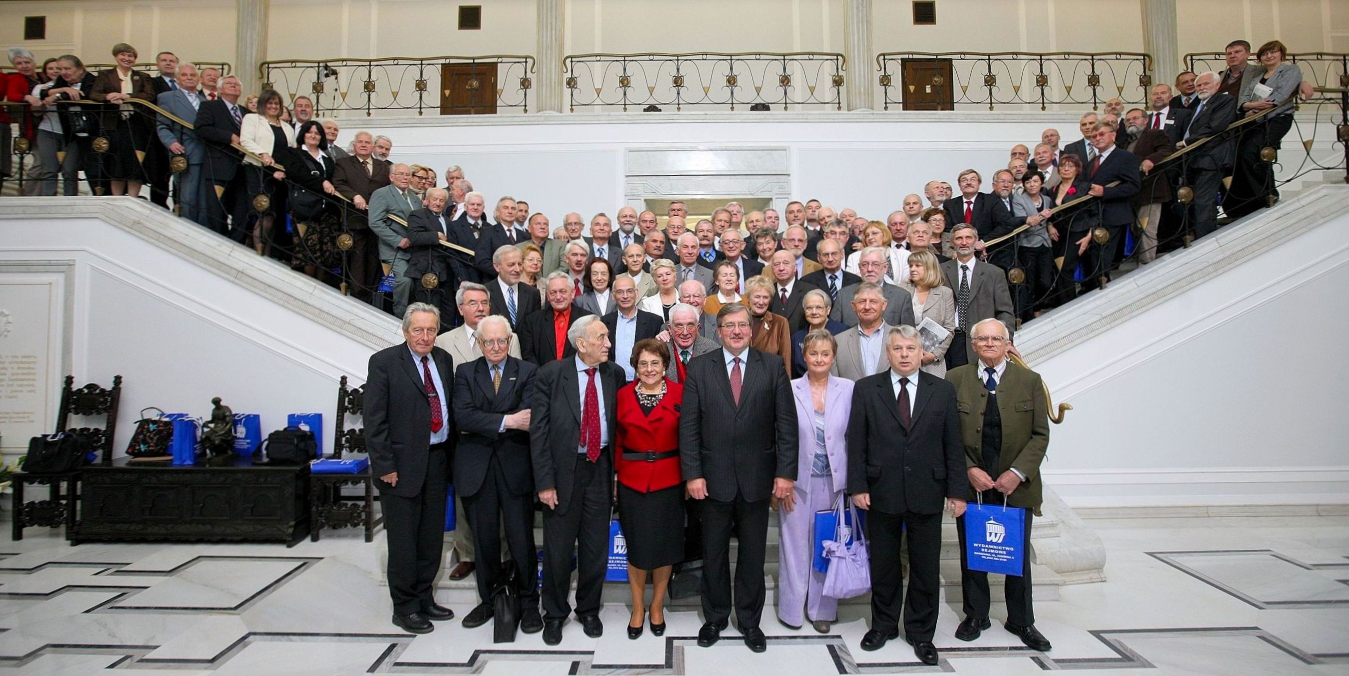 Meeeting of the Civic Parliamentary Causus (OKP) former members in the Polish Sejm